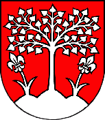 Coat of arms of Brezová pod Bradlom, Slovakia